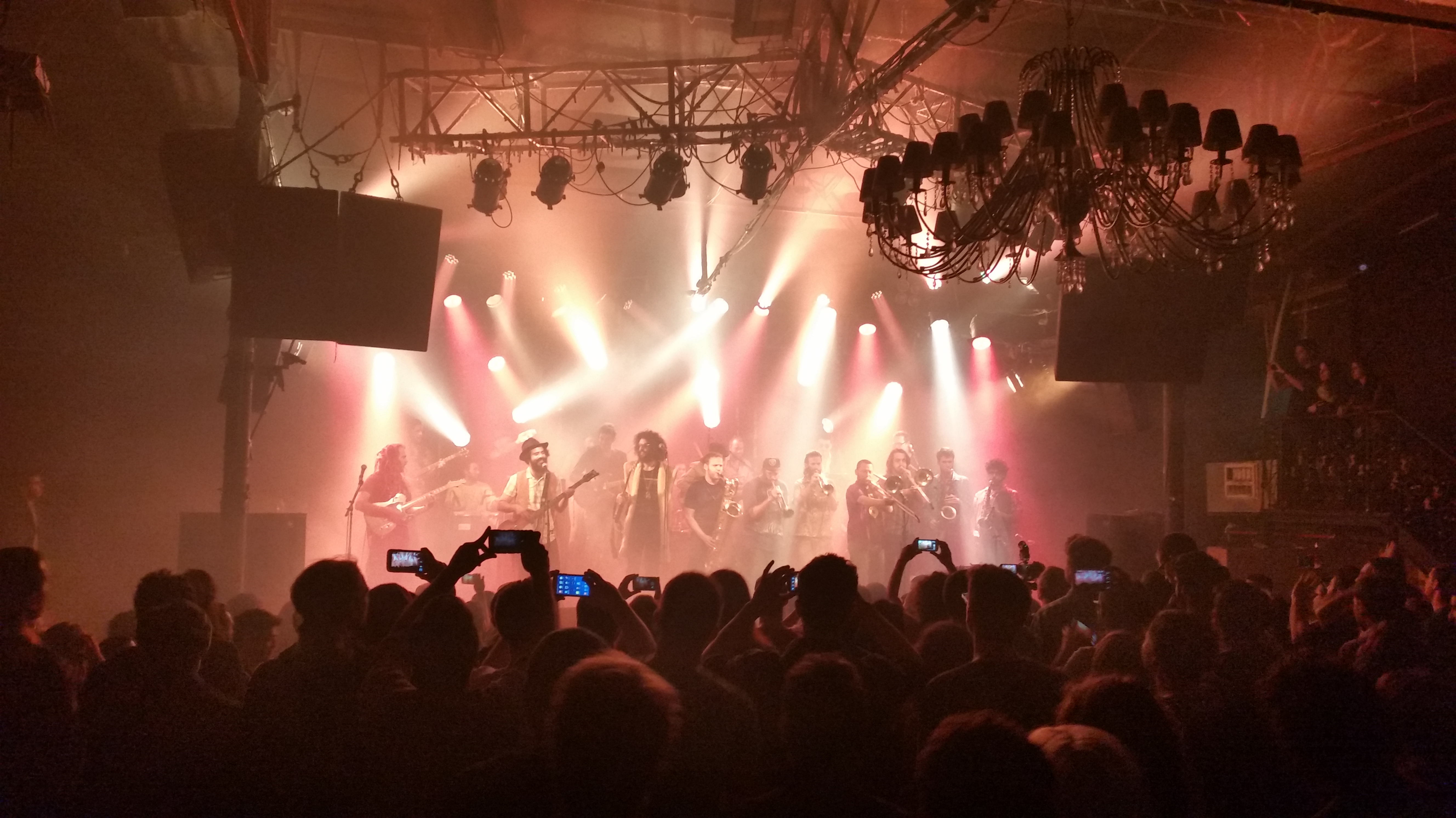 Funk'n'stein The band - Barbi, Tel-Aviv